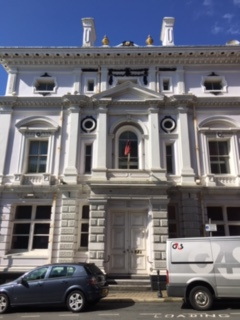 The former Dumbell's Bank building on Prospect Hill.